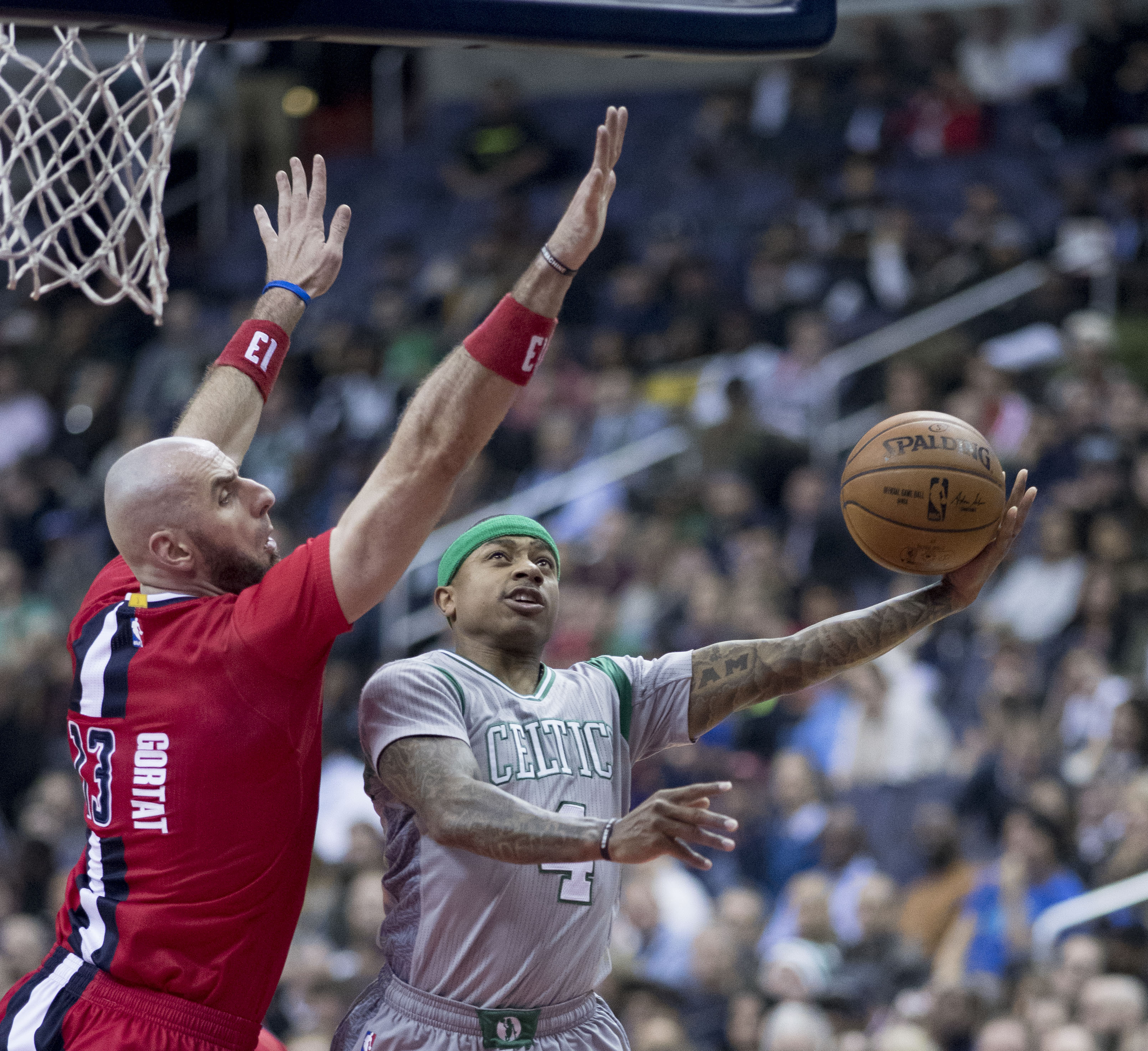 Celtics at Wizards 1/24/17